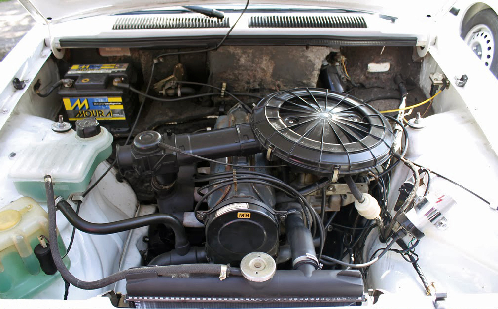 The 1.6 liter OHC engine of a late eighties' Brazilian-made Chevrolet Chevette